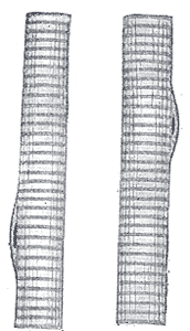 Striped muscle fibers from tongue of cat. x 250.